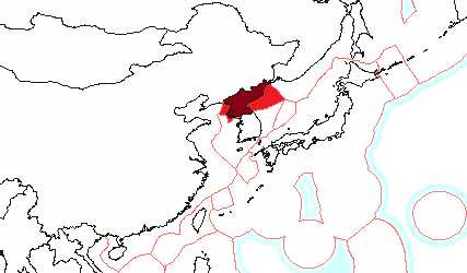 Exclusive economic zone of North Korea. The exact EEZ of North Korea cannot be determined. This approximation is in accordance with estimates presented in expert literature.